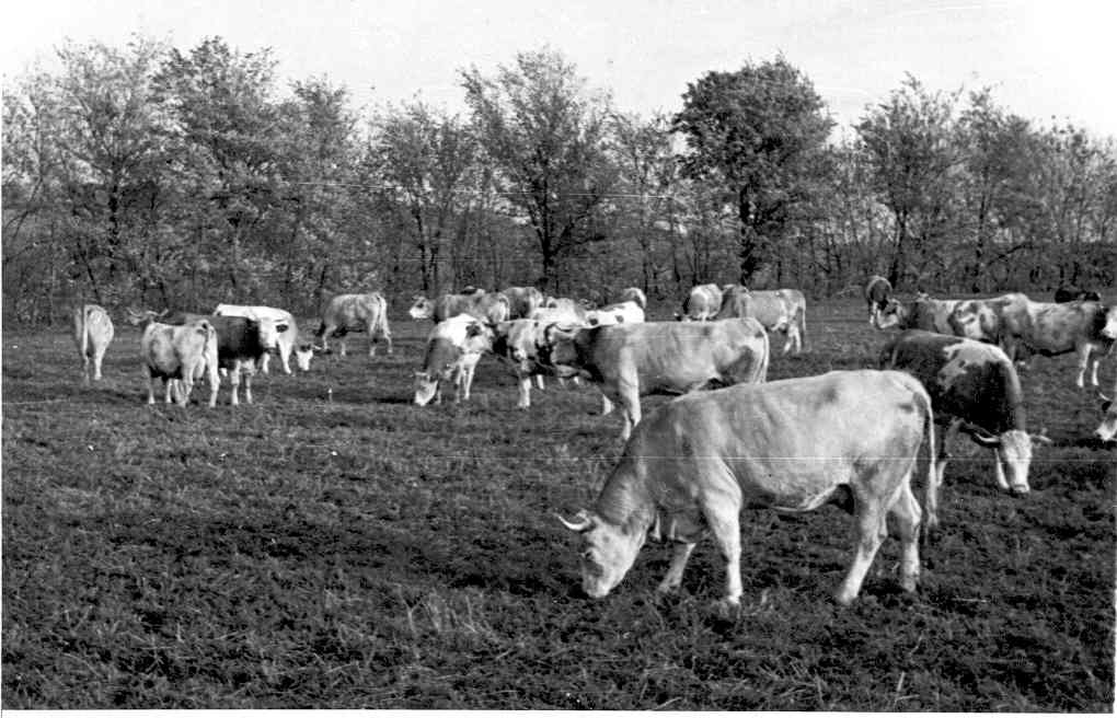 Simmental cow breed